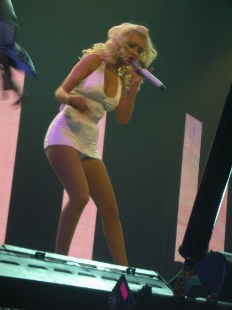 Christina Aguilera performing in Toronto, Ontario during her Back to Basics Tour in March 2007.